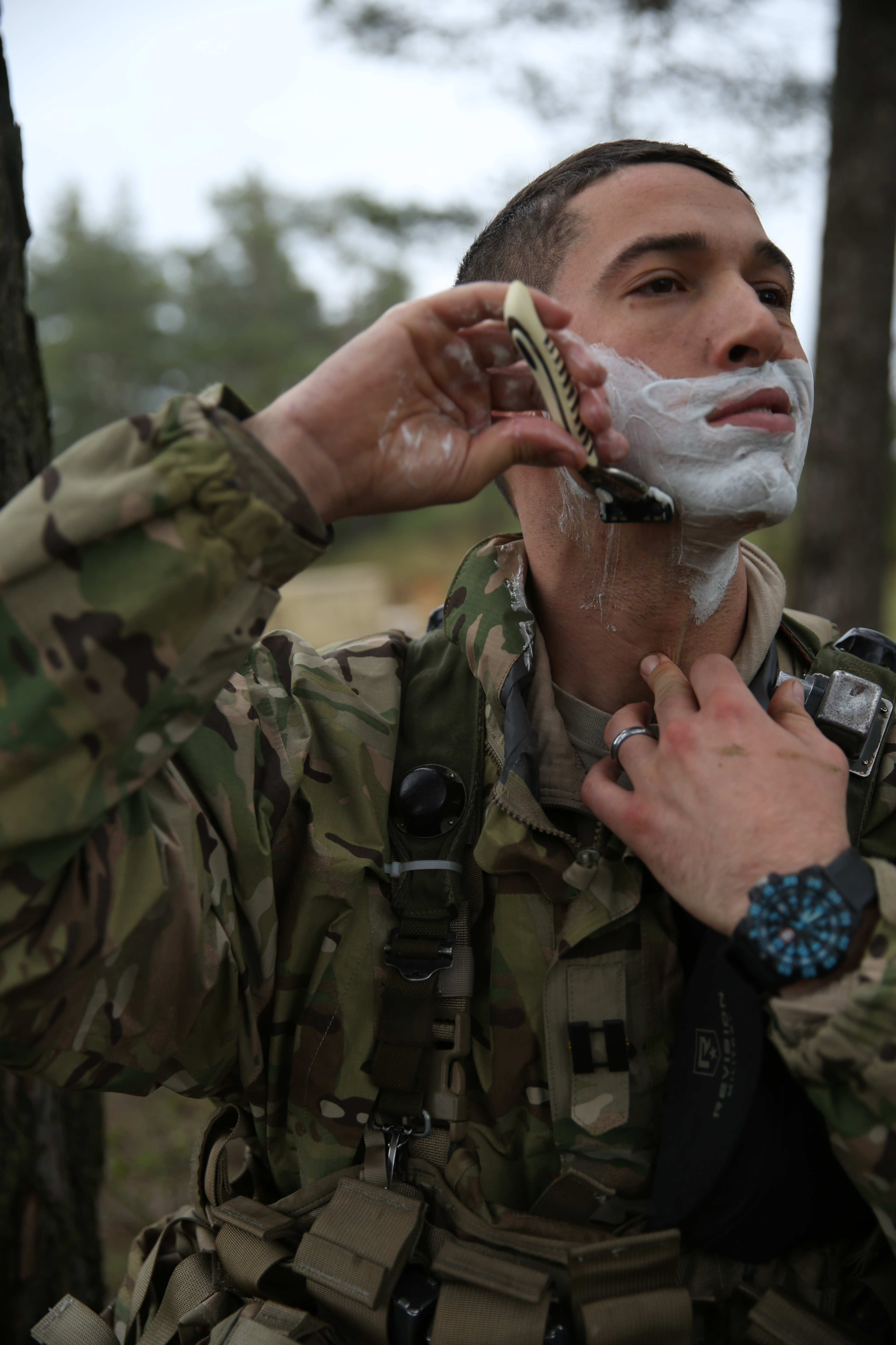 A U.S. Soldier of 173rd Airborne Brigade shaves his face while conducting personal hygiene during exercise Saber Junction 16 at the U.S. Army’s Joint Multinational Readiness Center (JMRC) in Hohenfels, Germany, April 18, 2016. Saber Junction 16 is the U.S. Army Europe’s 173rd Airborne Brigade’s combat training center certification exercise, taking place at the JMRC in Hohenfels, Germany, Mar. 31-Apr. 24, 2016. The exercise is designed to evaluate the readiness of the Army’s Europe-based combat brigades to conduct unified land operations and promote interoperability in a joint, multinational environment. Saber Junction 16 includes nearly 5,000 participants from 16 NATO and European partner nations.